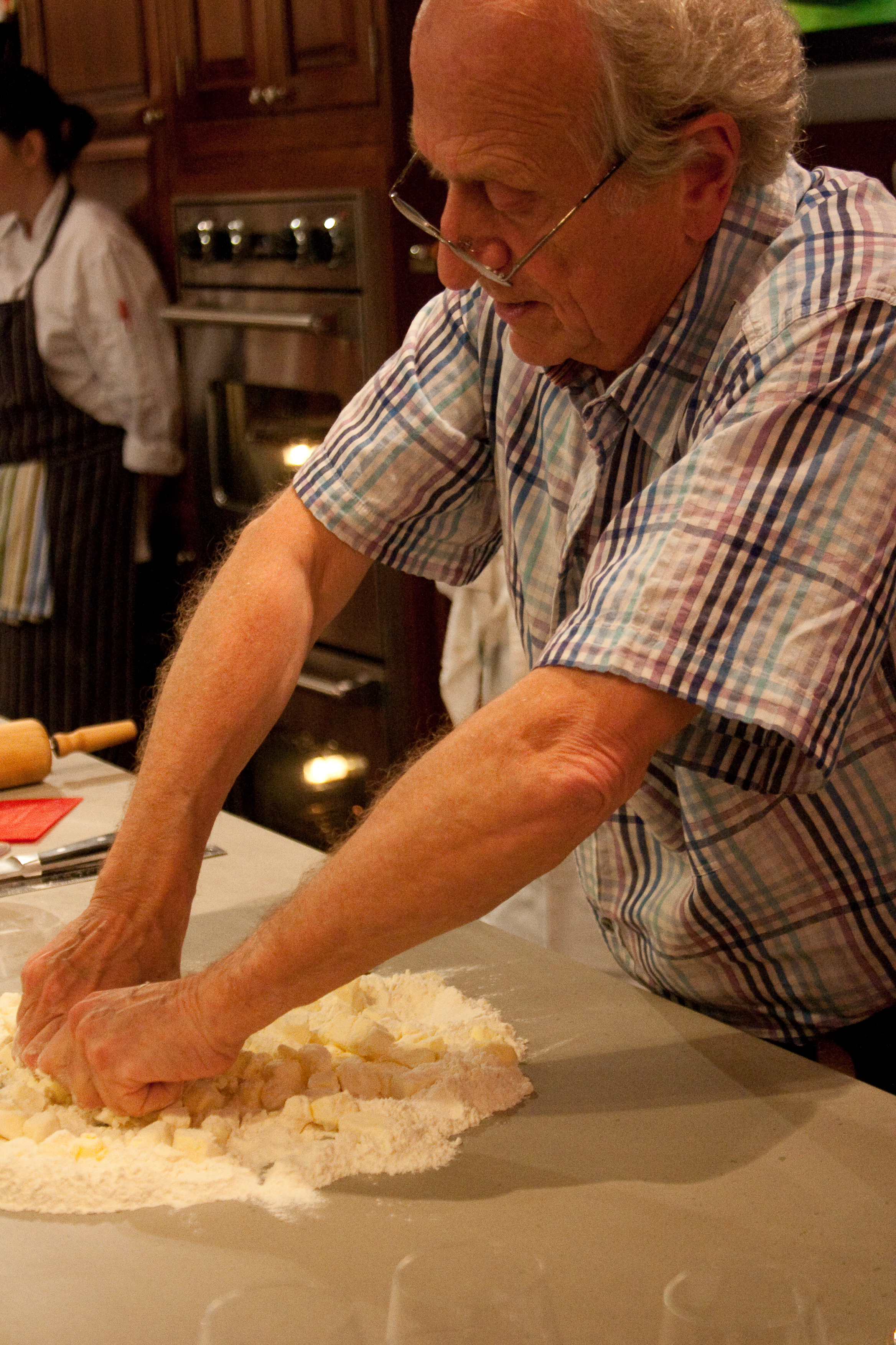 French chef Michel Roux making what appears to be puff pastry.